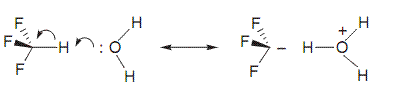 description of the hyperconjugative n(O)→σ∗ C H interaction in this complex in terms of resonance theory illustrating effective charge transfer from H-bond acceptor (water) to H-bond donor (ﬂuoroform).